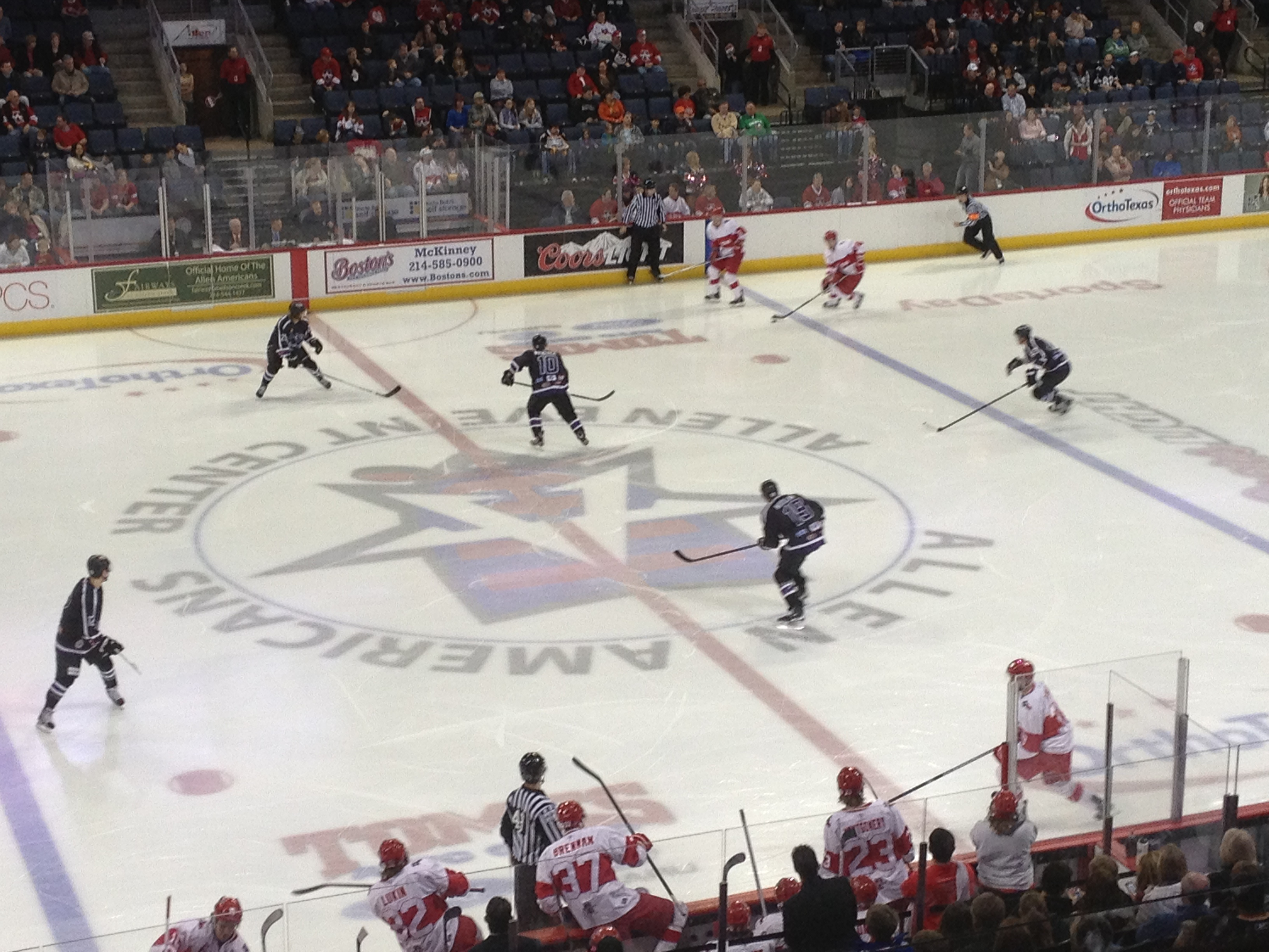 The Fort Worth Brahmas versus the Allen Americans at the Allen Event Center in Allen, Texas. Both teams play professional ice hockey in the Central Hockey League.